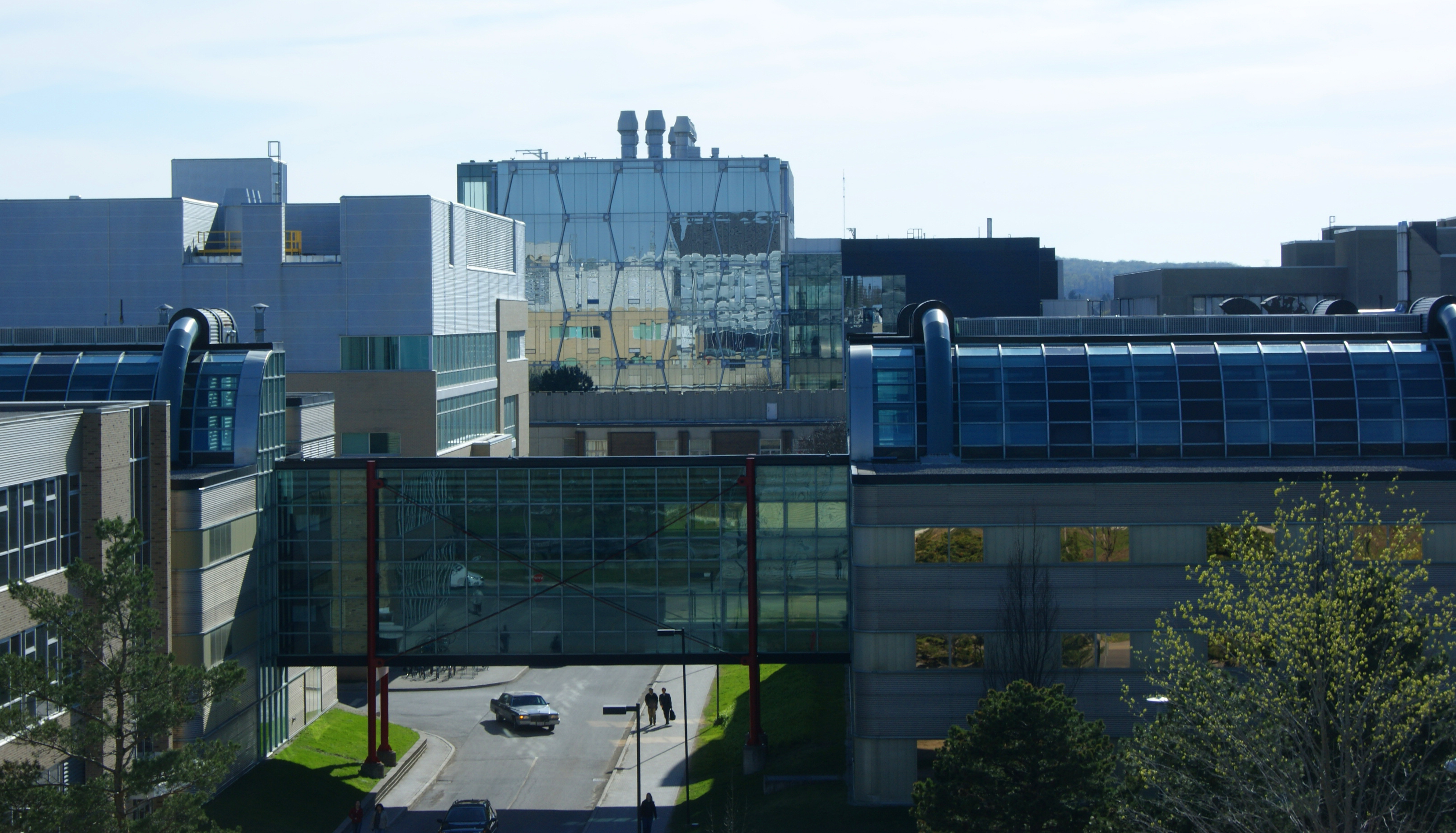 A View from the 4th floor of Engineering 5 outside at the campus